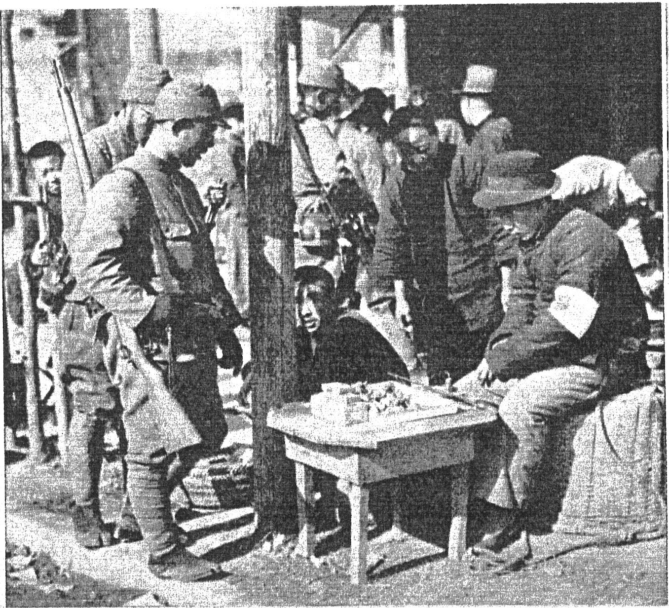 Bright friendship between Japan and China on a street corner of Nanking (December 17, 1937)